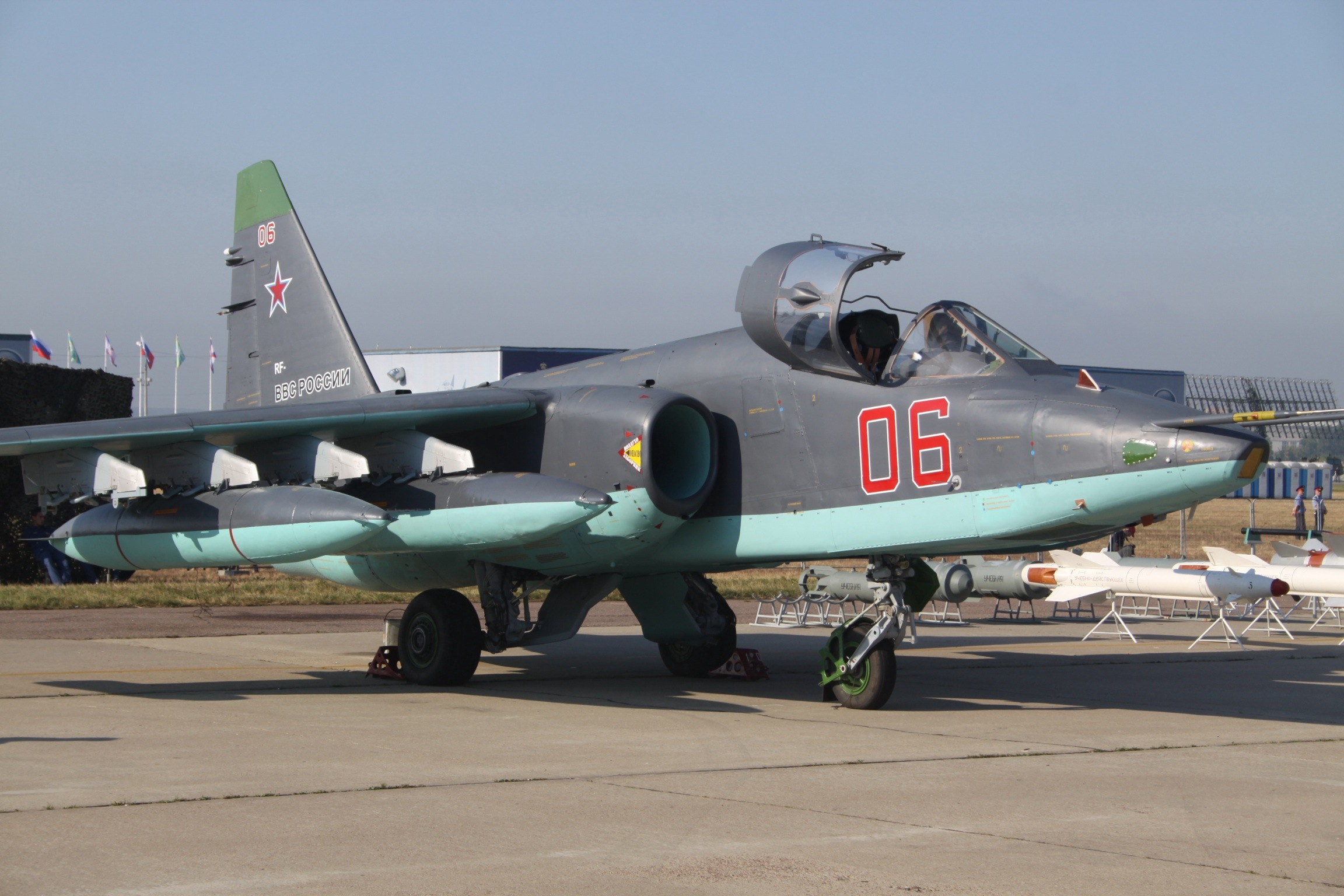 At Moscow Zhukovsky